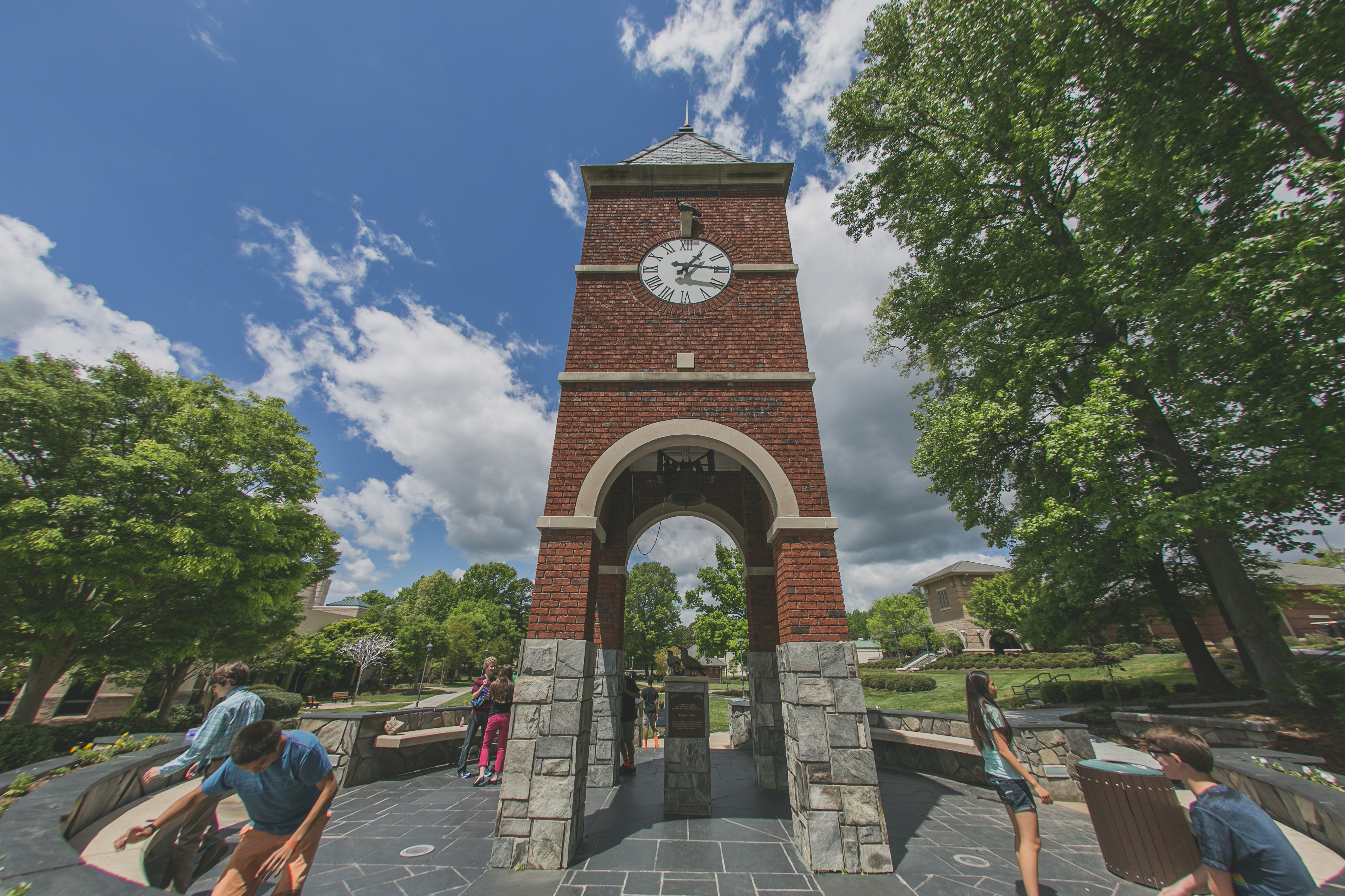 Ravenscroft School, named for John Stark Ravenscroft, the first Episcopal bishop of North Carolina and first rector of Christ Episcopal Church in Raleigh, North Carolina.